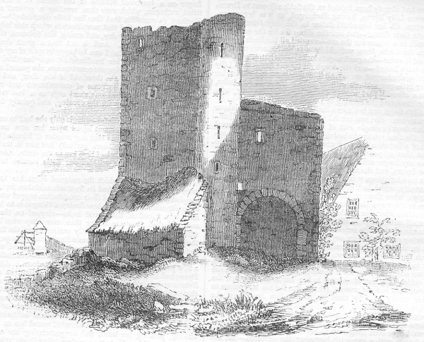 Print from the Dublin Penny Journal 1833